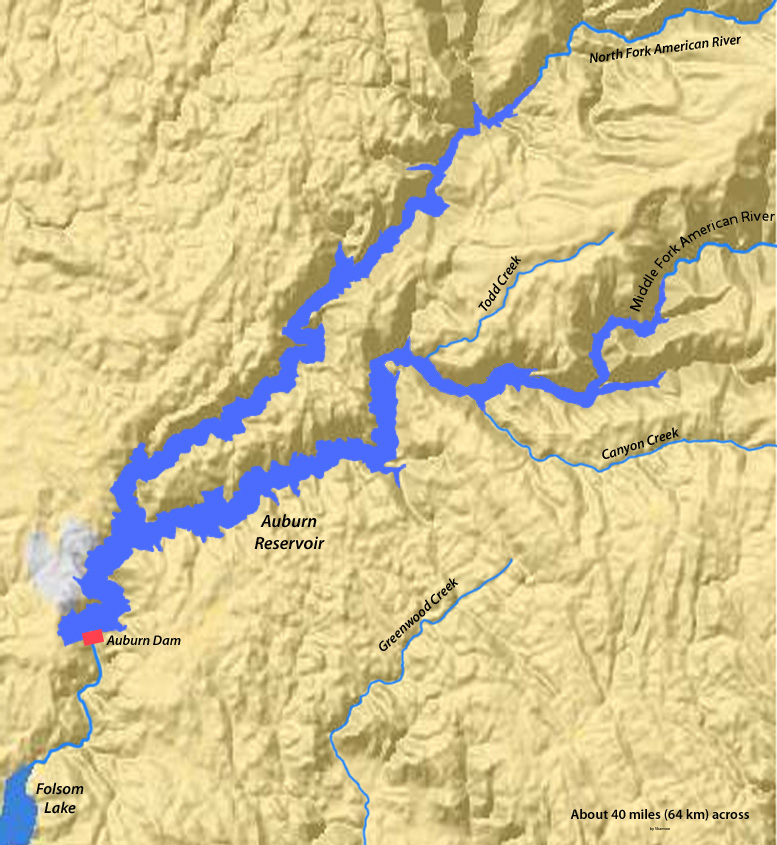 Map of the American River — with proposed Auburn Reservoir. River in the Sierra Nevada and Central Valley of California.